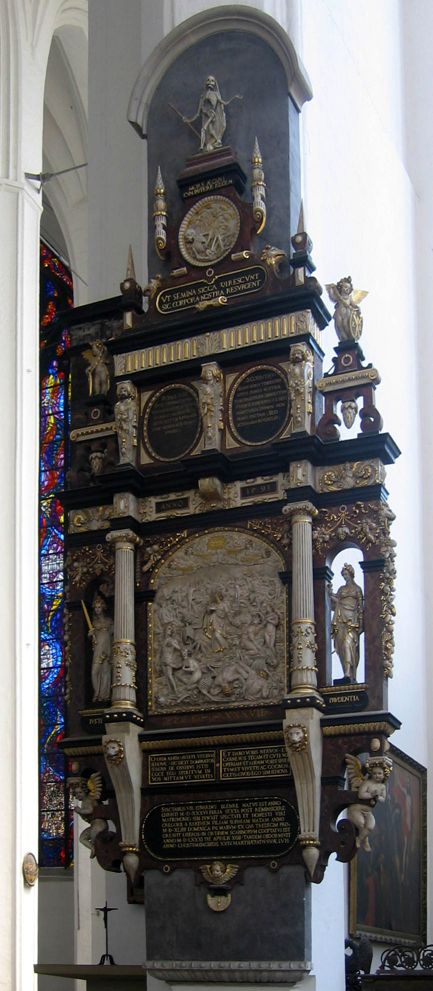 Willem van den Blocke, Epitaph on Edward Blemke (1591) in Gdańsk, St. Mary's Church